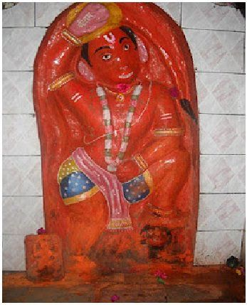 Majgaav maruti